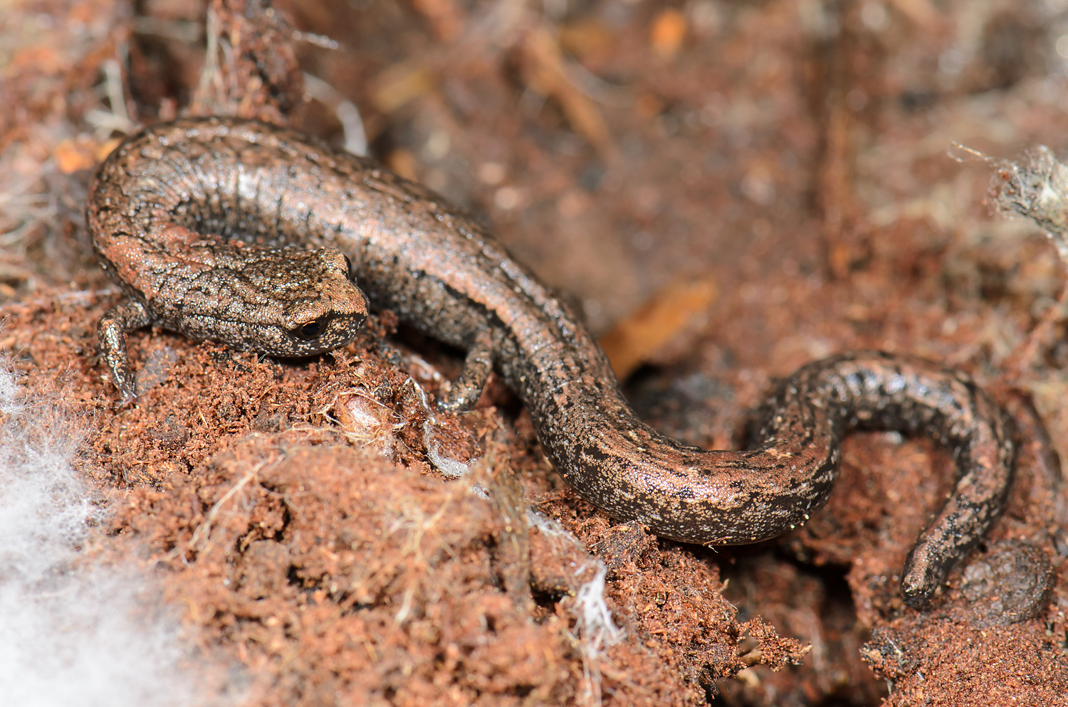 Batrachoseps gregarius, Smith Mill, California, USA